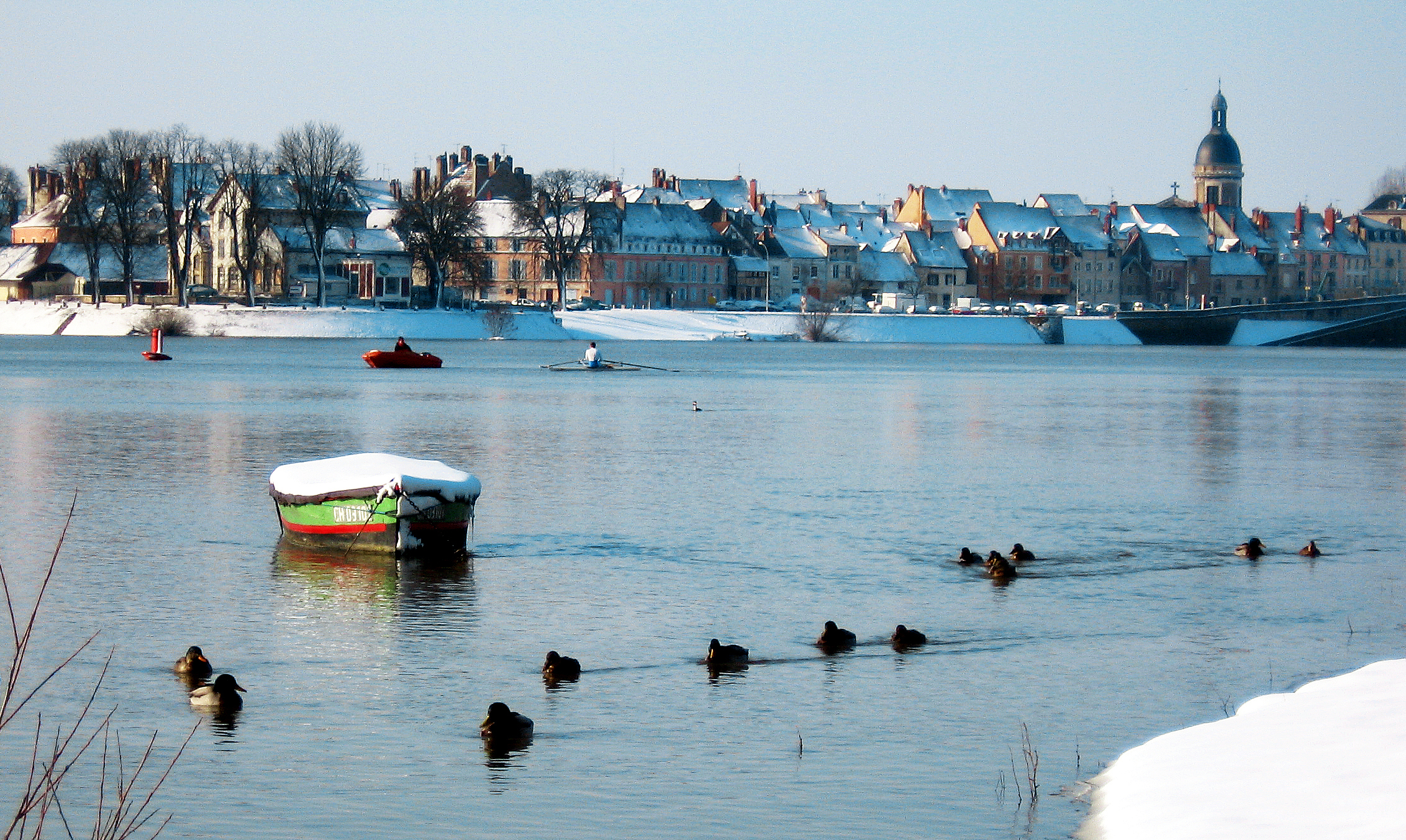 chalon-hiver.jpg